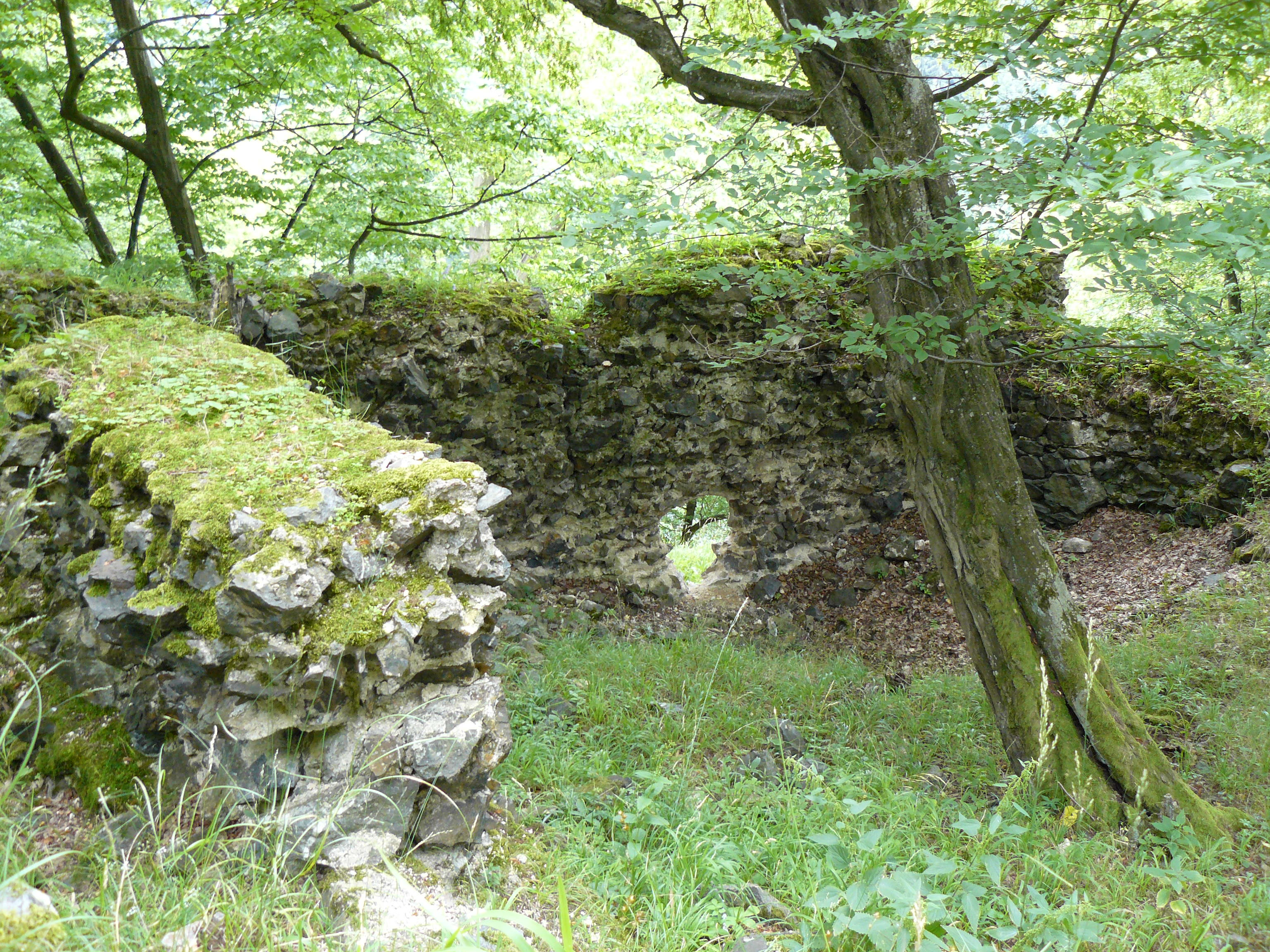 Jivno - Ruins of the castle